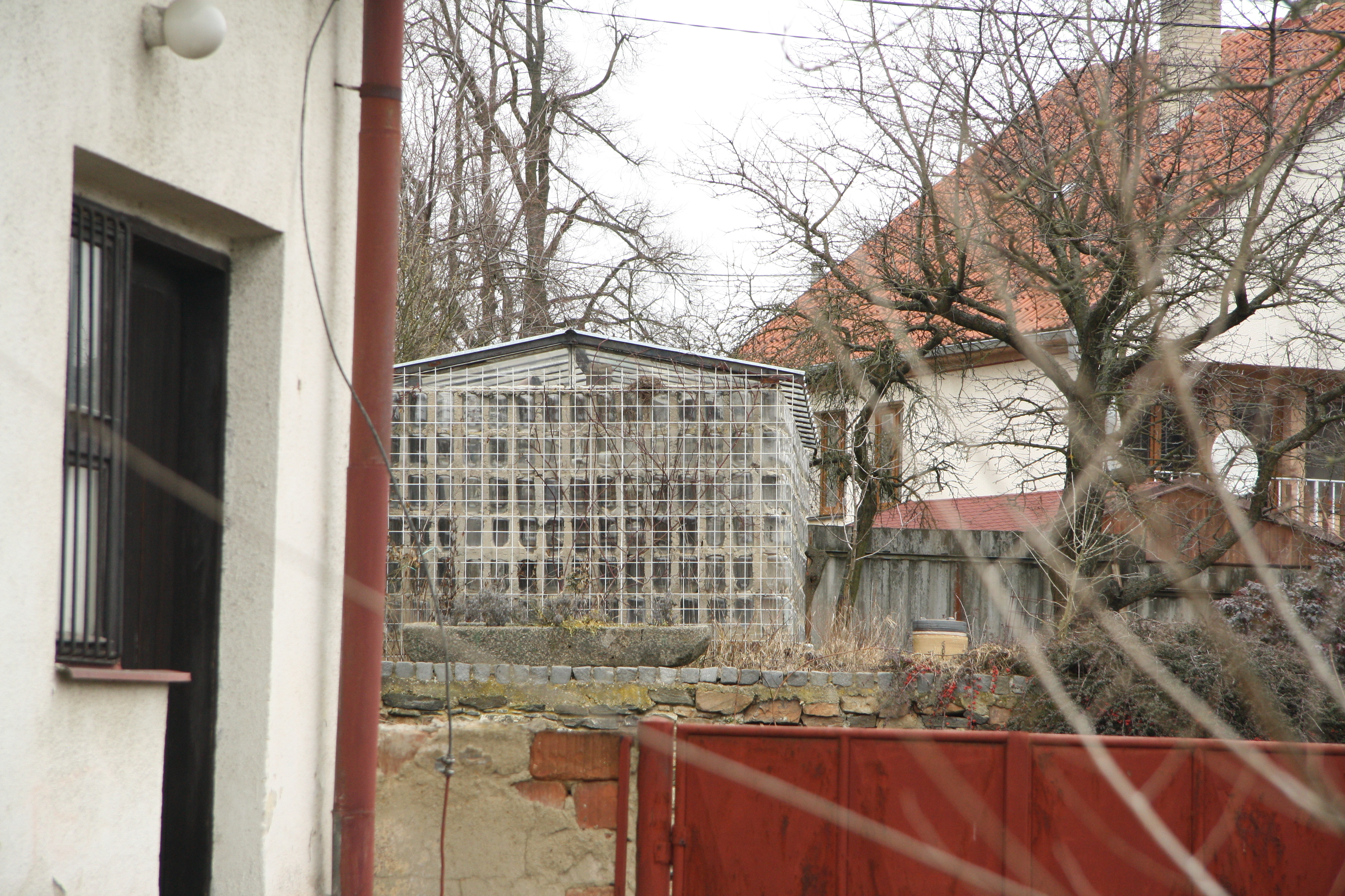 Place of castle in Čechočovice, Třebíč District.